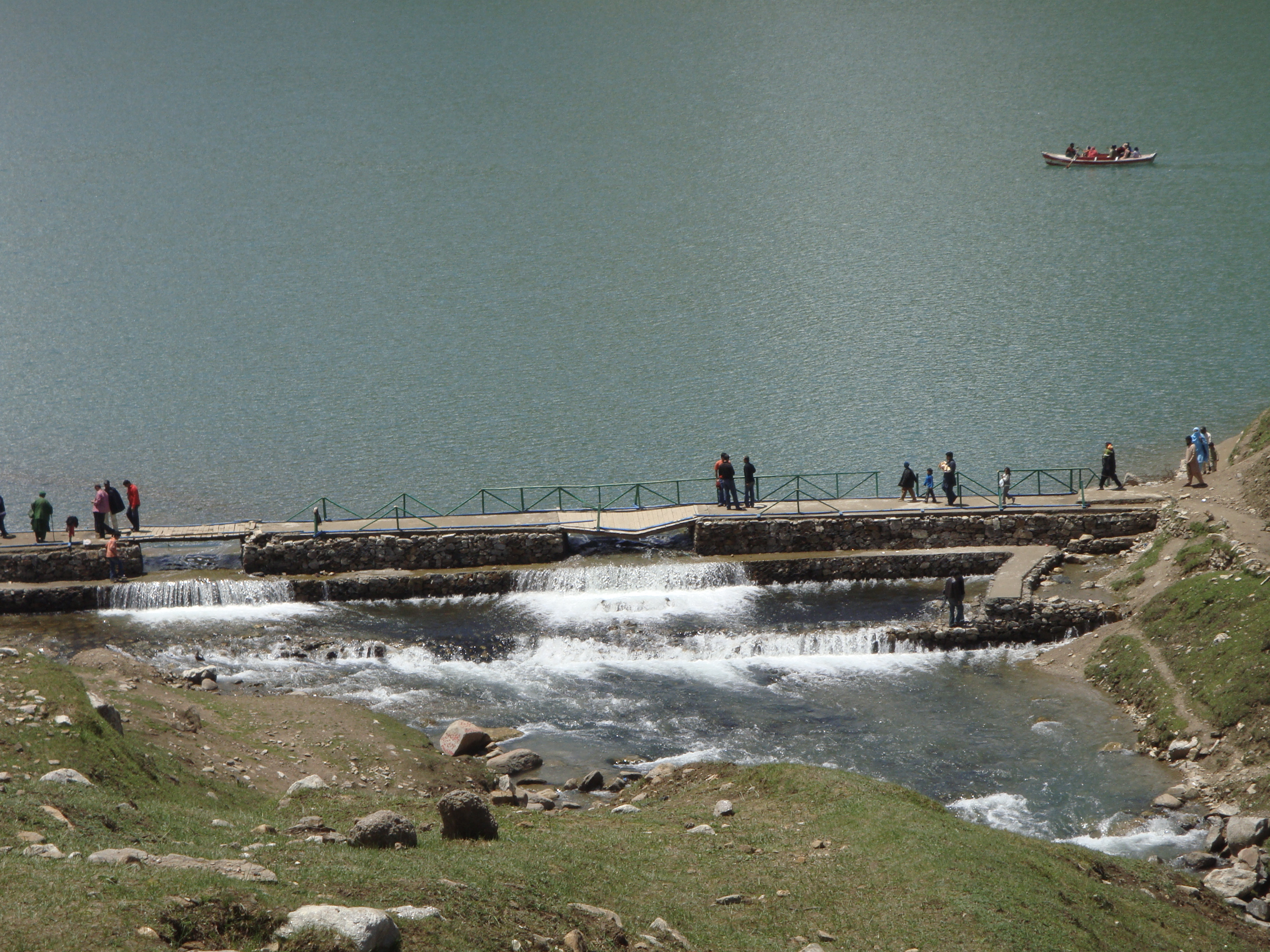 This is the bridge at the Lake Saifal Malook.